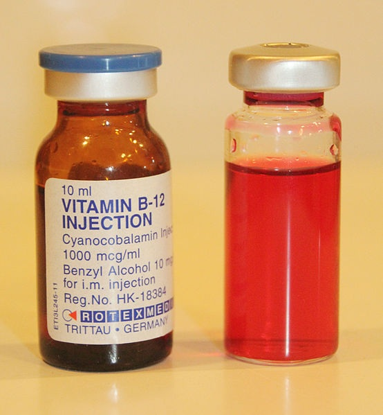 By the way, for fruitarians (and others who refuse to consume animal foodstuff) under the nowadays circumstances it's very important to add B12 suppletion. This is usually done through (multi vitamin) tablets, but particularily when a large shortfall occurred the backlog is mostly eliminated with injections.